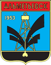 Almetievsk (Tatarstan), coat of arms (1987)